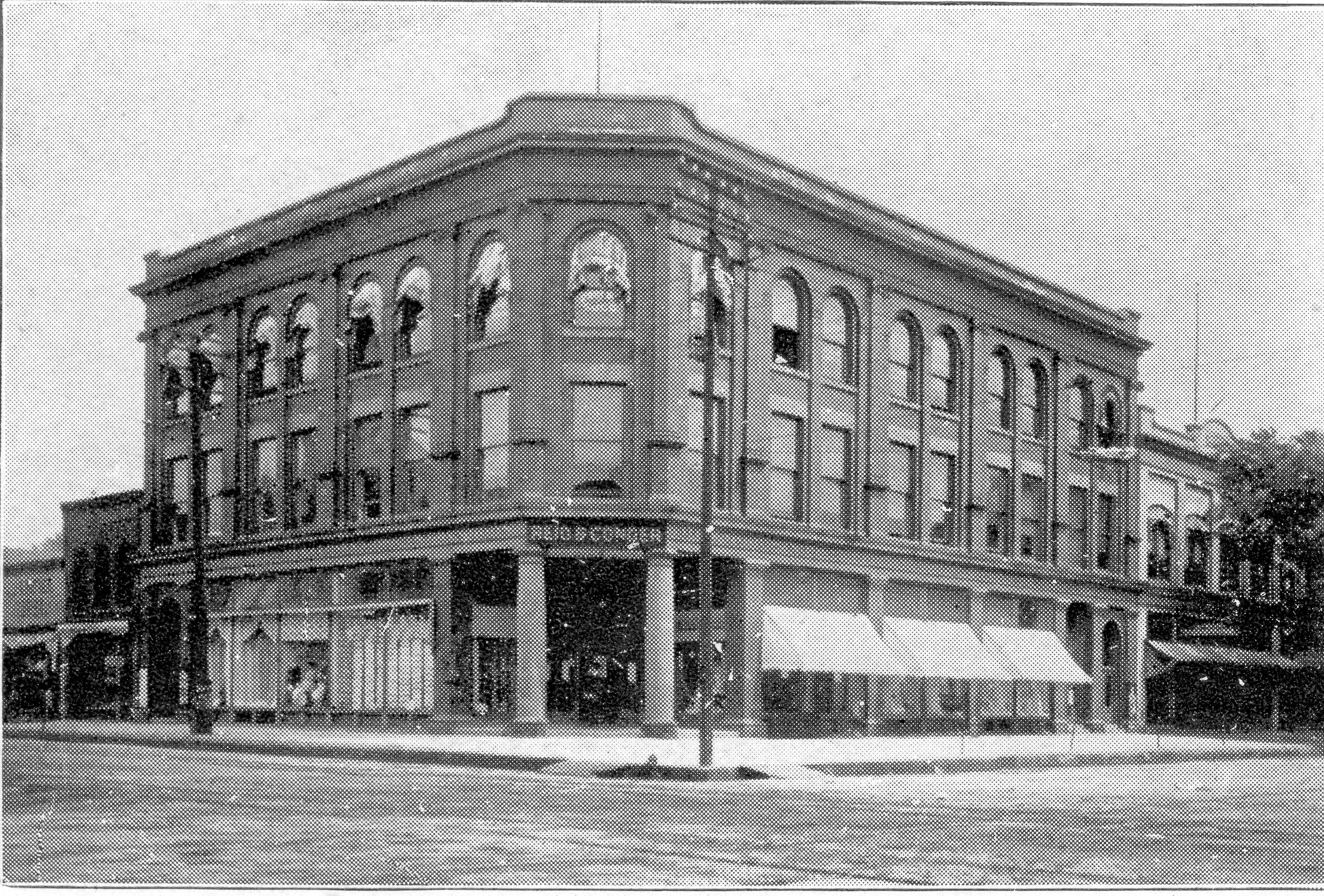 Howes Building with three floors 1900-1905. Iowa.